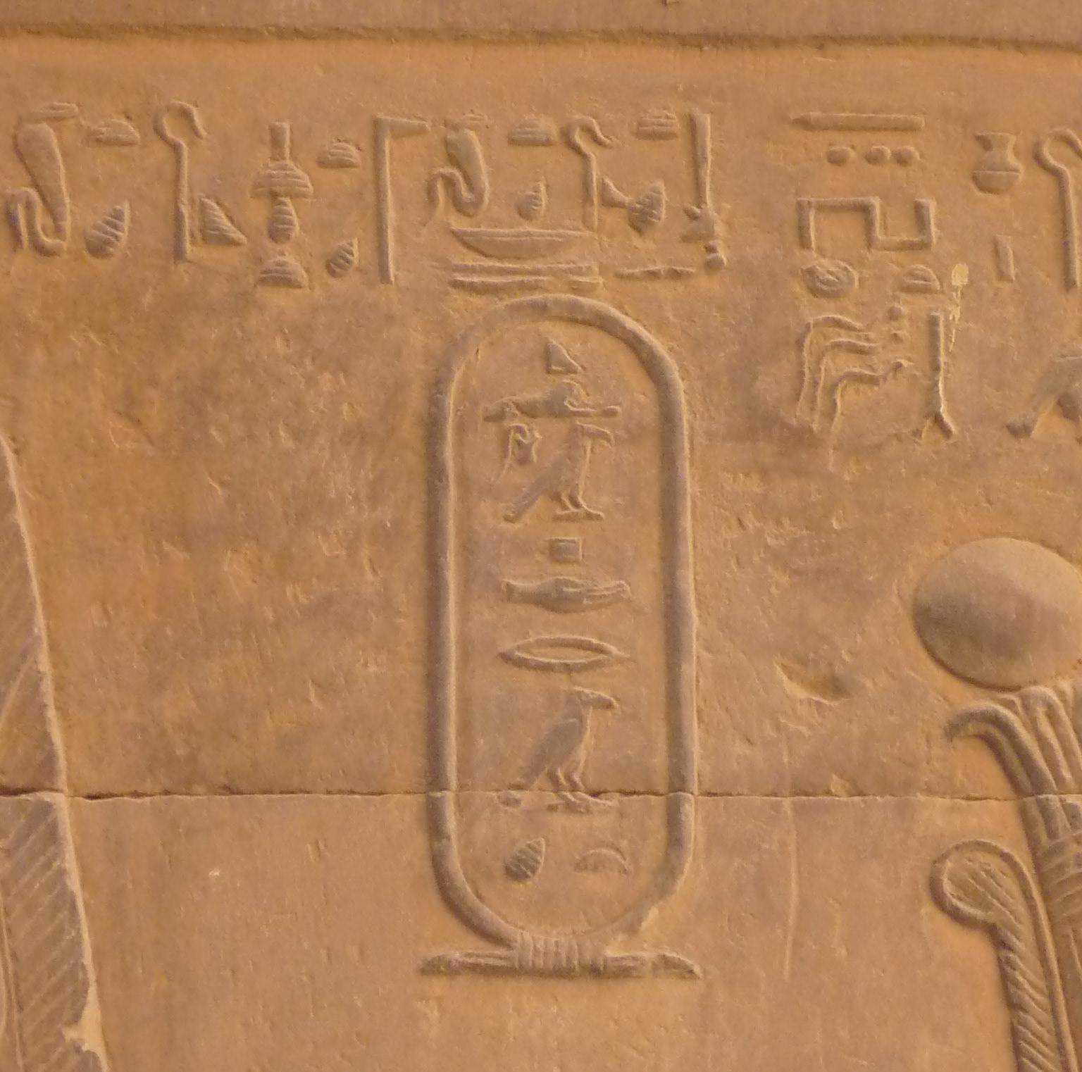 Wall relief of Cleopatra II cartouche, Kom Ombo Temple, Egypt